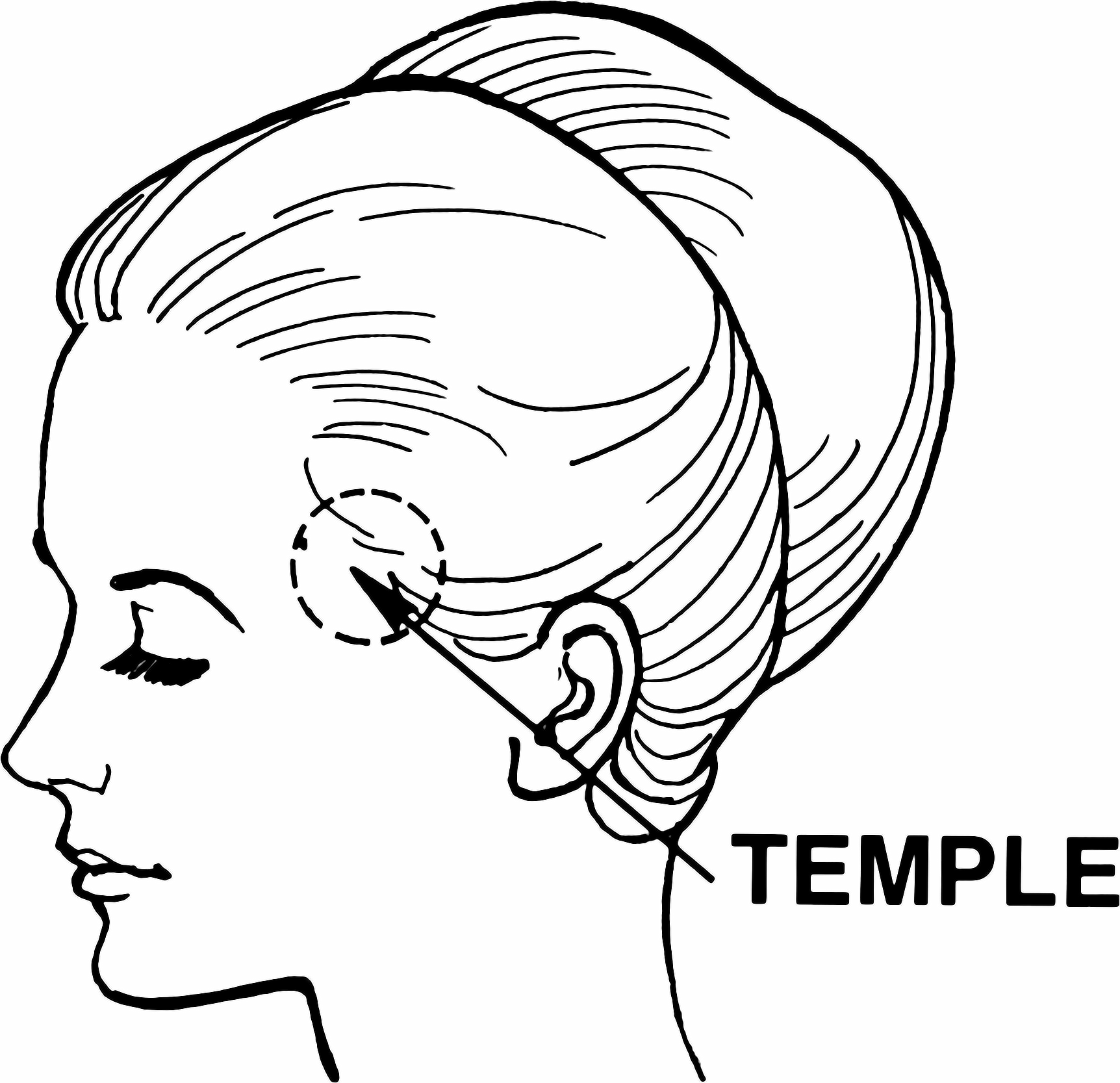 Line art representation of Temple (anatomy)